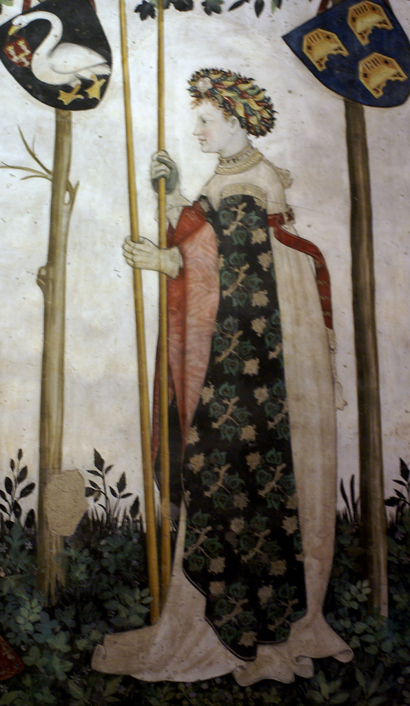 Aloisia of Ceva as Semiramis